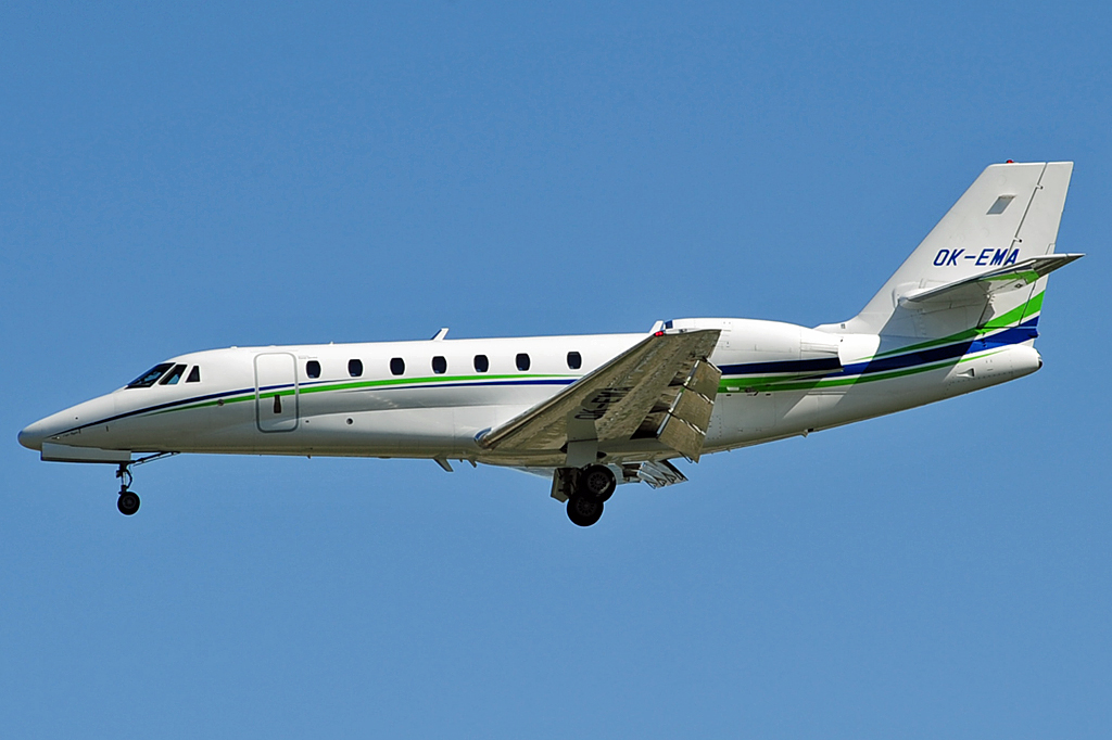 OK-EMA Cesna 680 landing at Geneva on May 14, 2012.